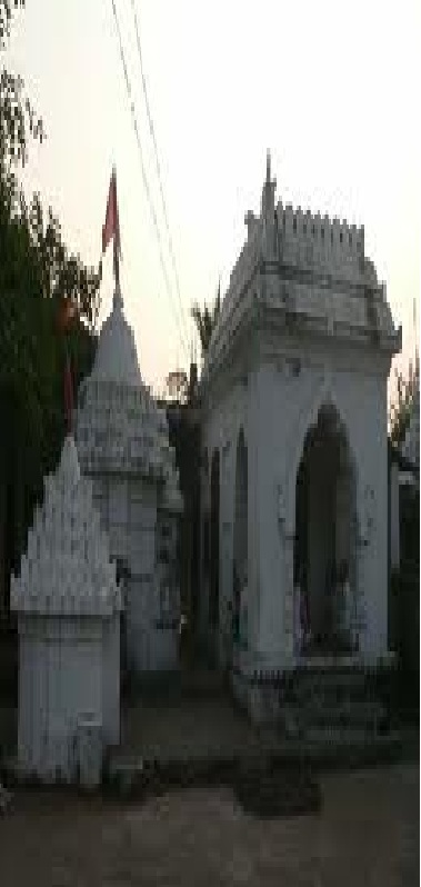 Bhimesvara Siva temple is located within the Uttaresvara Siva temple precinct, in the northern embankment of Bindusagar tank. The enshrining deity of this temple is a Siva lingam within a circular yoni pitha at the centre of the sanctum. This is a living temple and is facing towards the east.